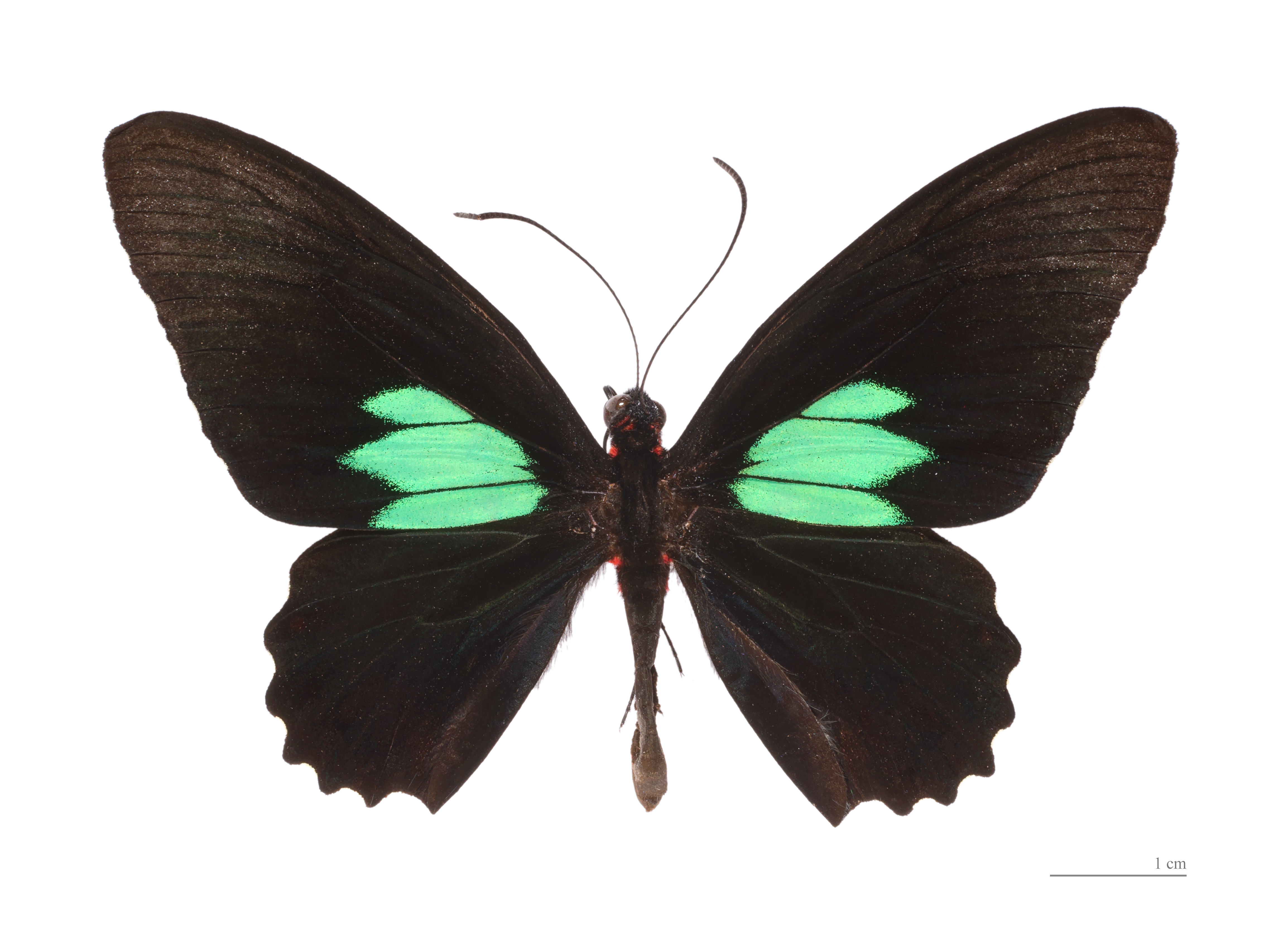 Emerald-patched Cattleheart ♂ - Dorsal side Locality : Cacao, Crique Baguot, French Guiana.